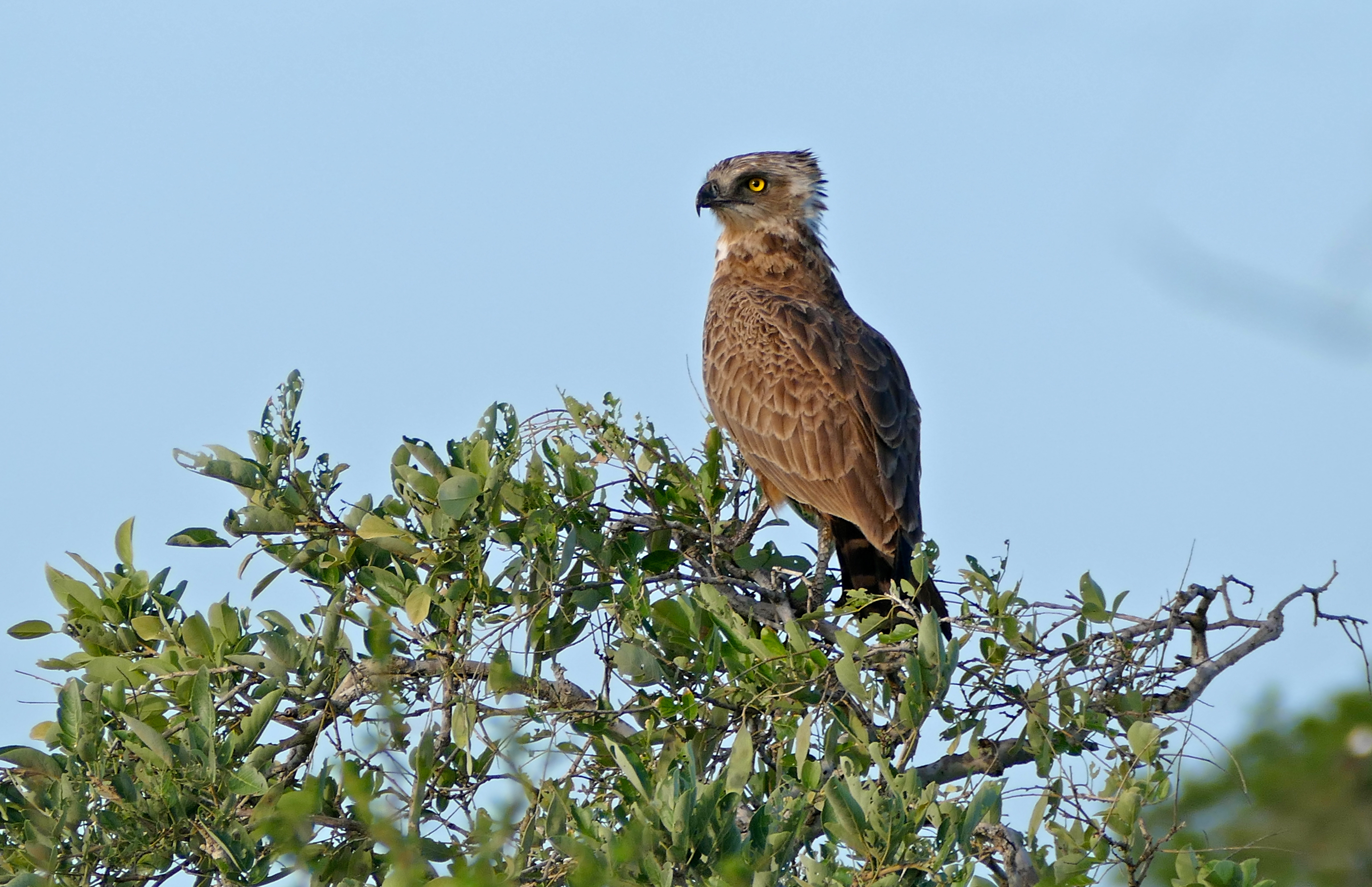 An immature Brown snake eagle photographed on the H4-2 Road east of Lower Sabie, Kruger NP, SOUTH AFRICA